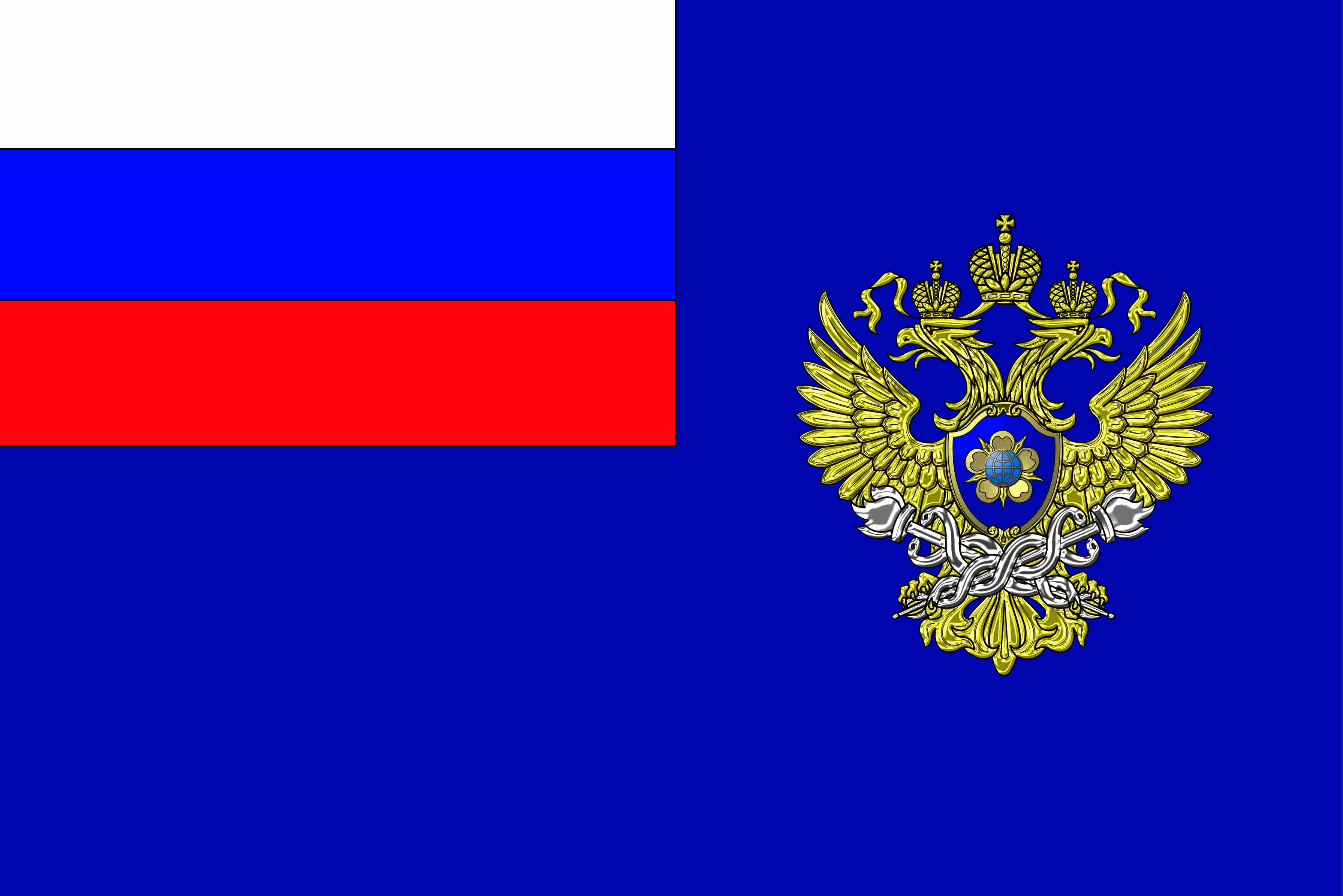 Flag of the Federal Service for Financial Monitoring (approved by Government Resolution dated January 25, 2008 № 27)